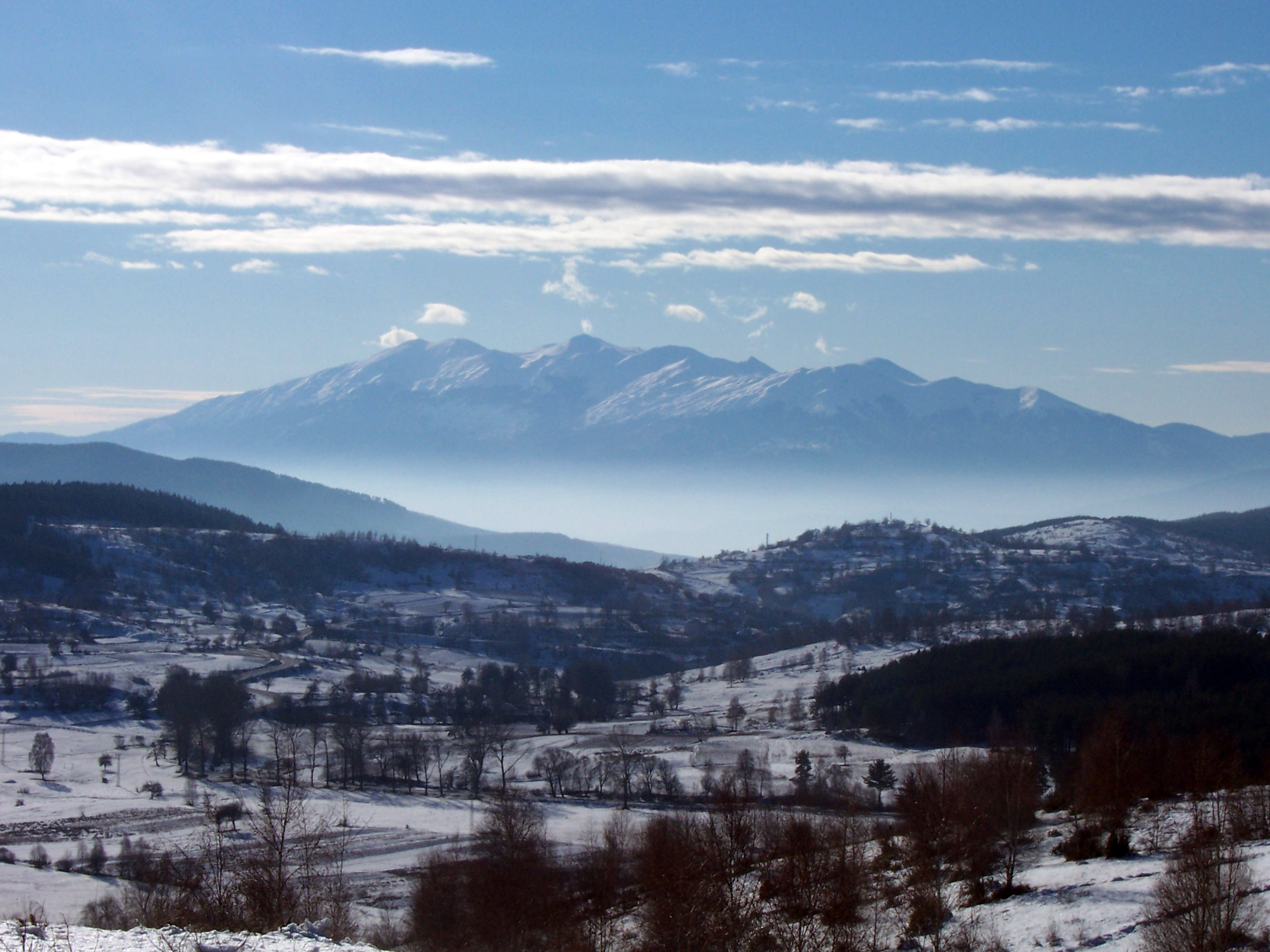 Falakro is a mountain in Greek Macedonia. It's highest point is 2232 meters (7323 feet) above the sea level. The picture was taken from Chindjovo - the vicinity of the village of Kochan (Rhodope mountain, Bulgaria). I was there two days ago at noon and the conditions weren't very good so I returned today at about 10 am. The next time I'll try to take a photo of Falakro (or Boz Dag according to the people in Southern Bulgaria) at sunset or sunrise. I've seen the mountain at that times of the day and it is really magnificent.